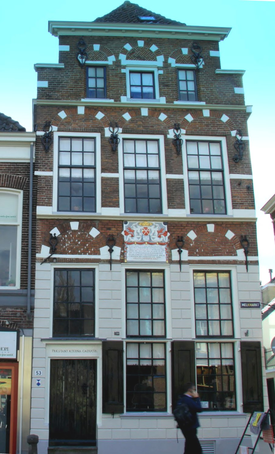 Vrouwenhuis, Melkmarkt 53, Zwolle Anno 1742 is dit huis tot een vrouwenhuis gestigt volgens de uiterste wille van Juffer Aleide Greve overleden den 4 February 1742 dogter van de heer Geurt Greve gemeensman burgerhopman deser stad en contrarolleur van de convoien en licenten en van vrouw Lamberta Holt